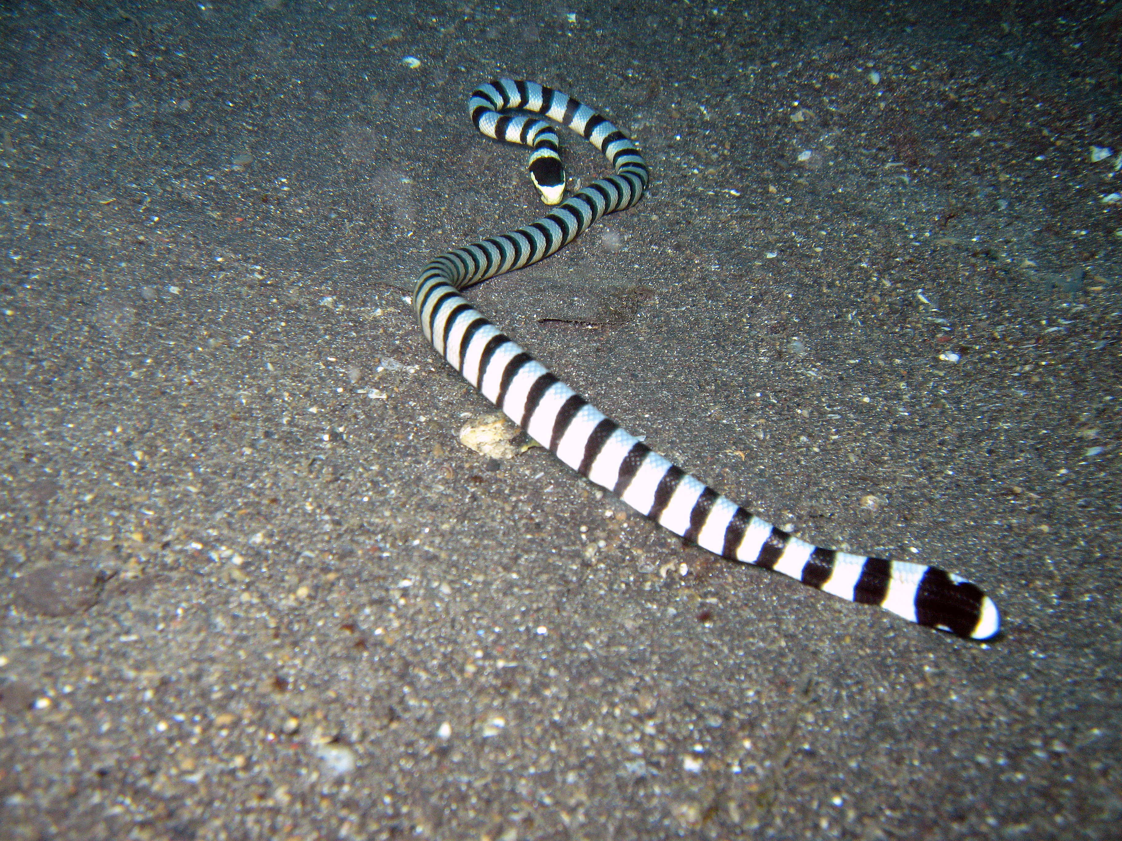 Image of a banded sea krait, Laticauda colubrina. Taken at Lembeh Straits, North Sulawesi, Indonesia.